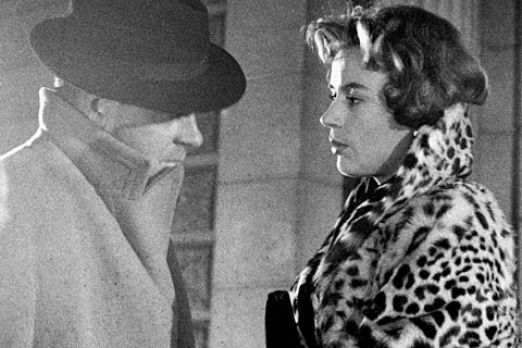 Erik Strandmark and Harriet Andersson i the film Kvinna i Leopard (1957).